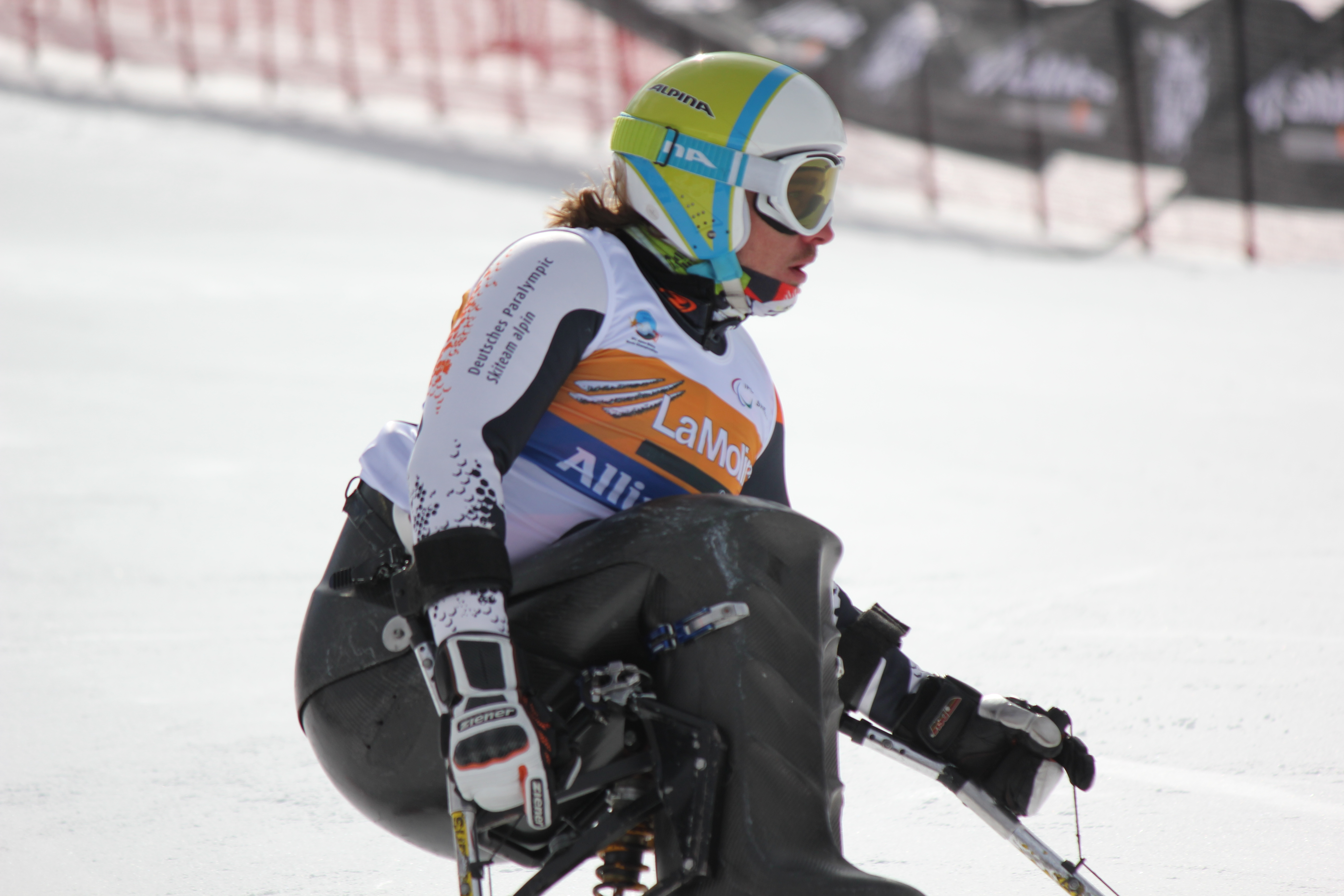 2013 IPC Alpine World Championships in La Molina, Spain on Super combined competition day for the first run in the men's sitting event.